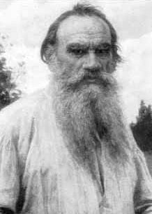 Leo Graf Tolstoi (1828-1910), russian writer and poet